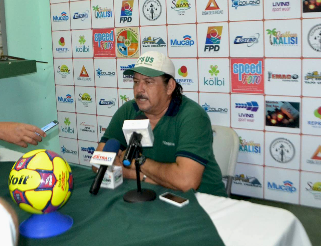 Horacio Esquivel during a press conference.